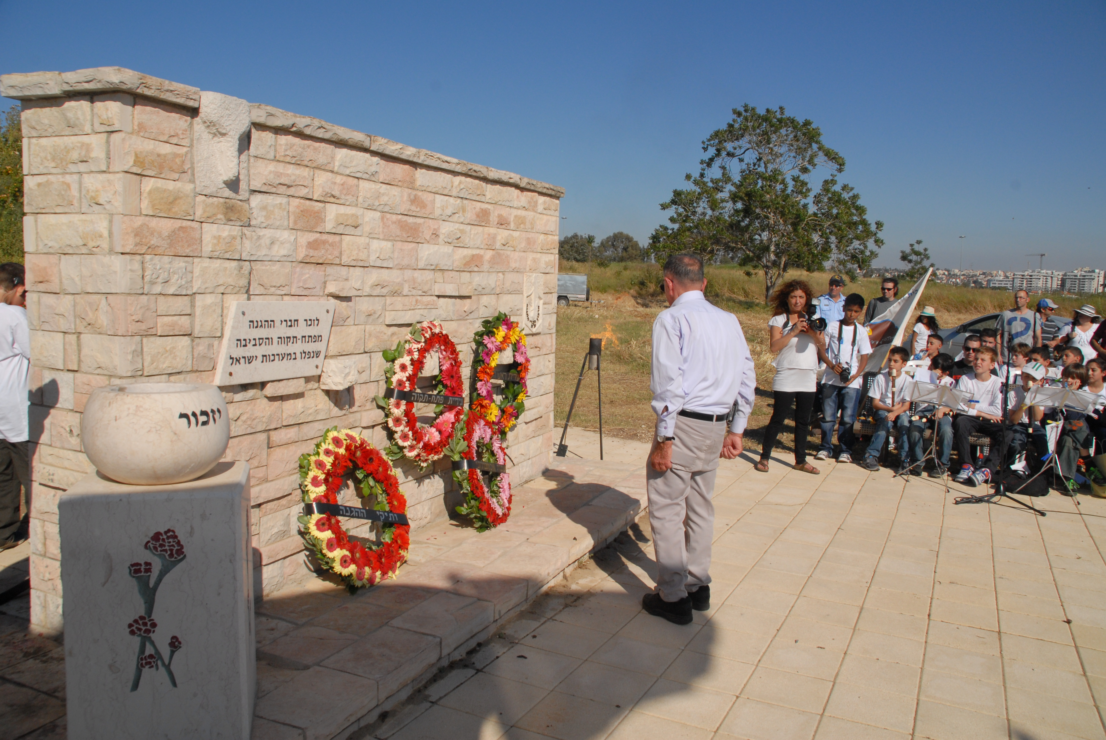 Geography of Israel